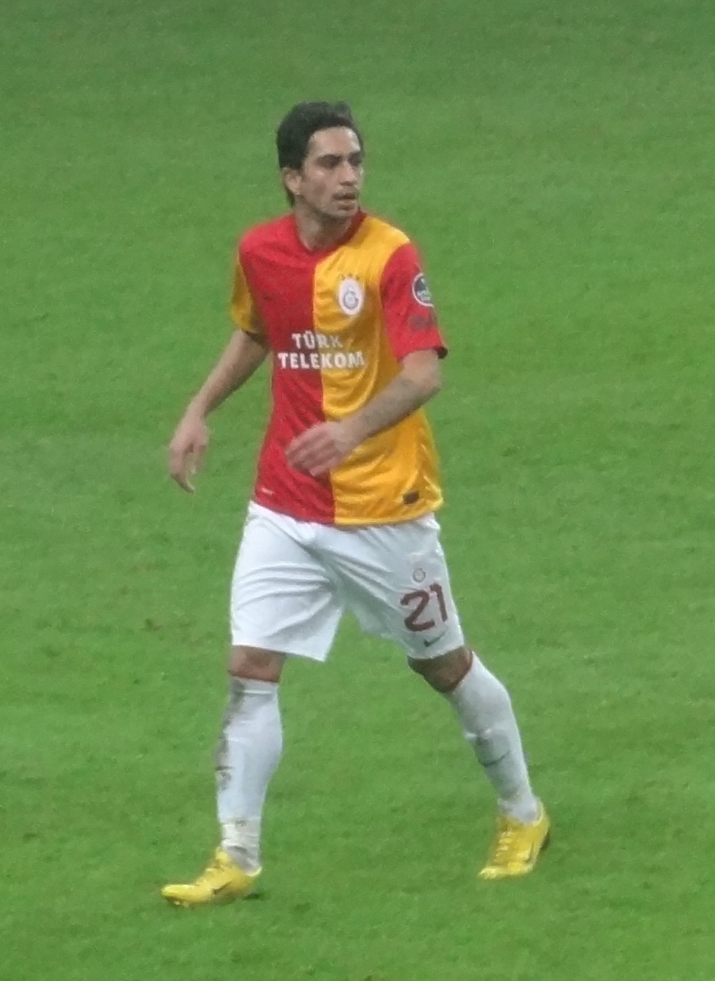 Y.Gökoğlan Anakragücü karşısında.